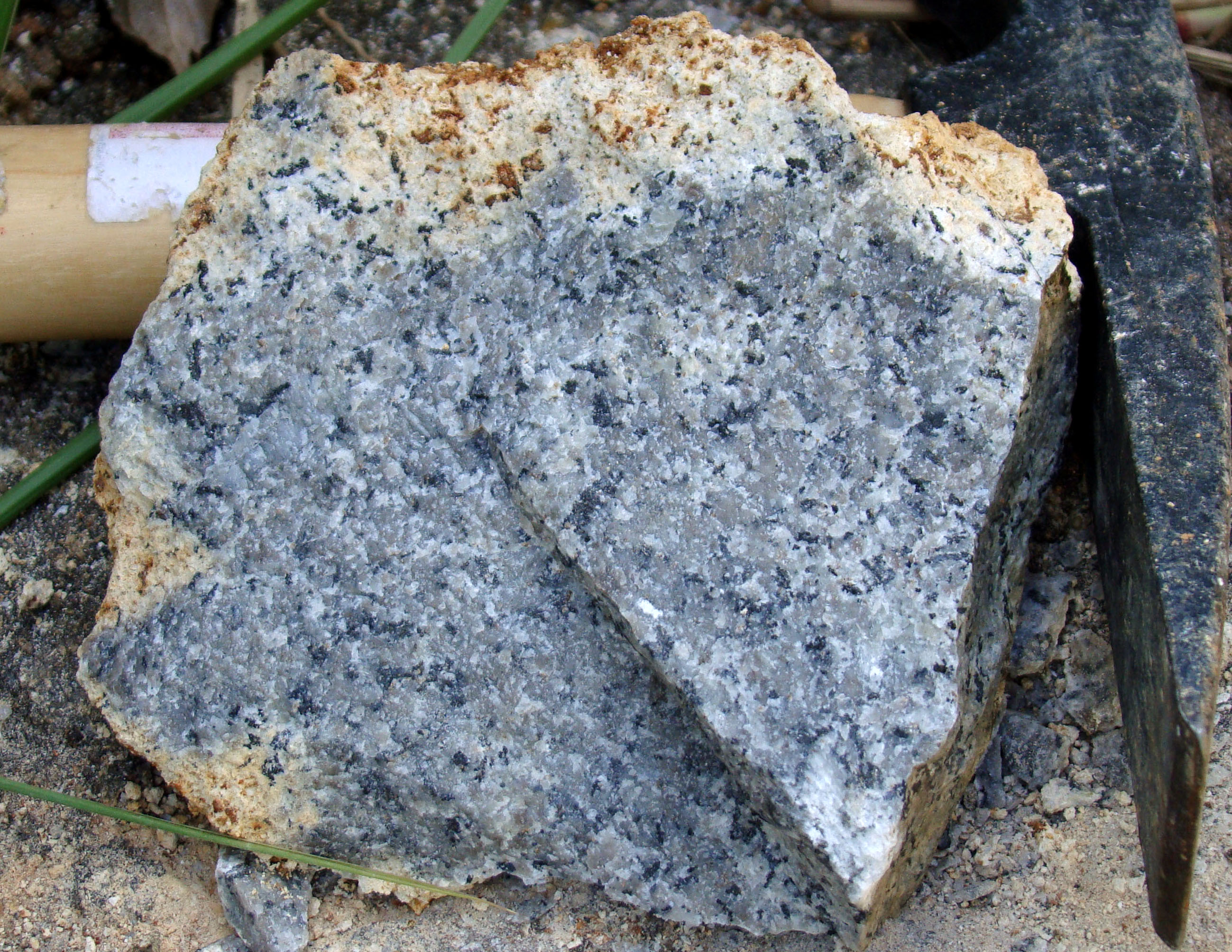 Nepheline syenite of Tinguá, Rio de Janeiro, Brazil.